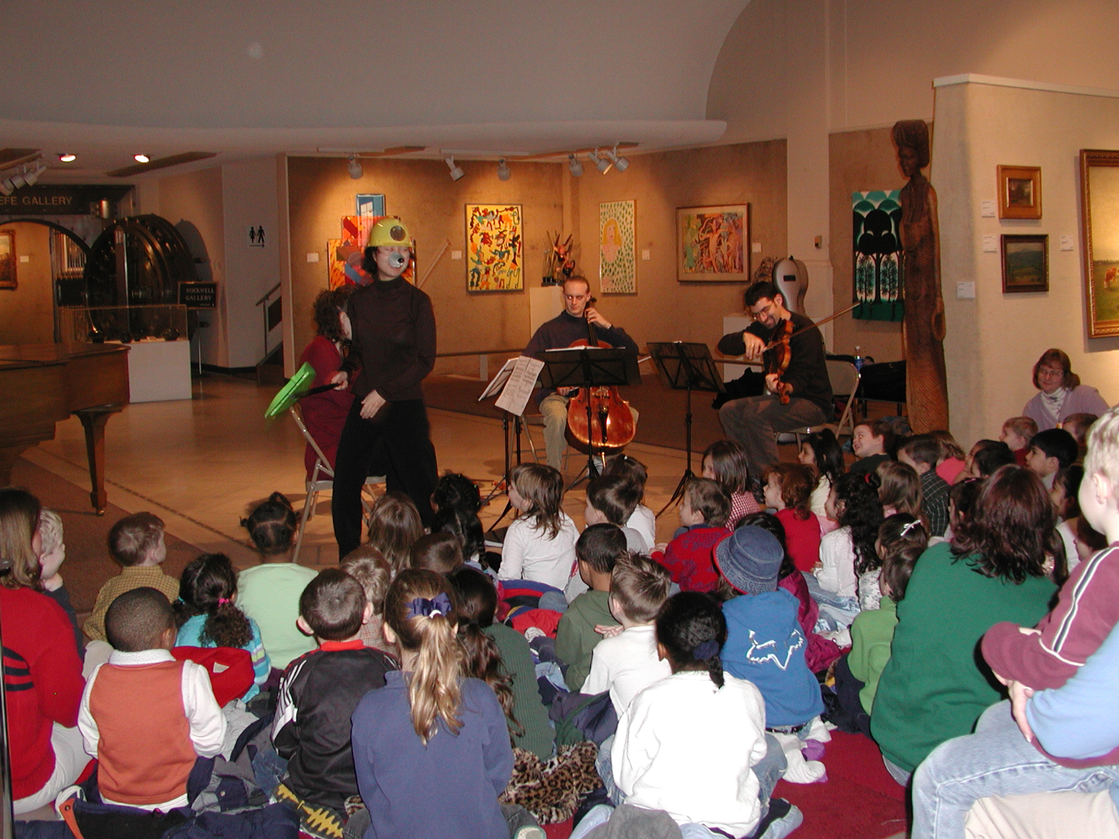 The Chiara Quartet performs Mole Music for pre-schoolers in South Bend, IN